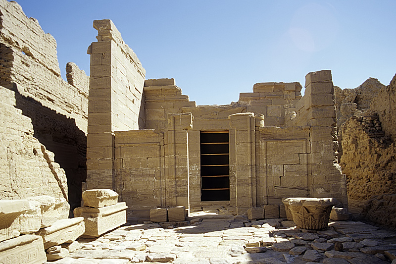 Pronaos of the Temple of Isis and Serapis, Qasr Dush, el-Kharga depression, Libyan desert, Egypt